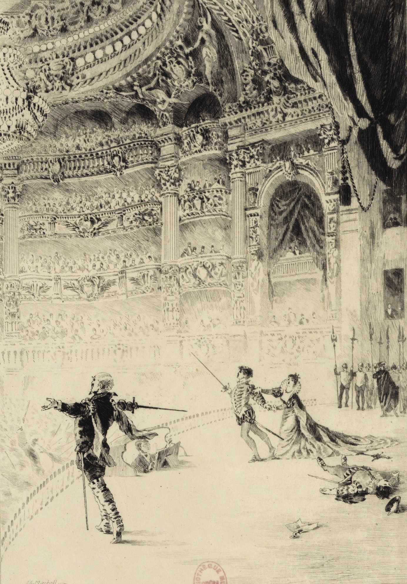 Les Huguenots at the Paris Opera house in 1875